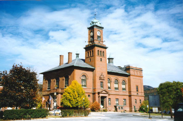 Claremont NH City Hall 03743